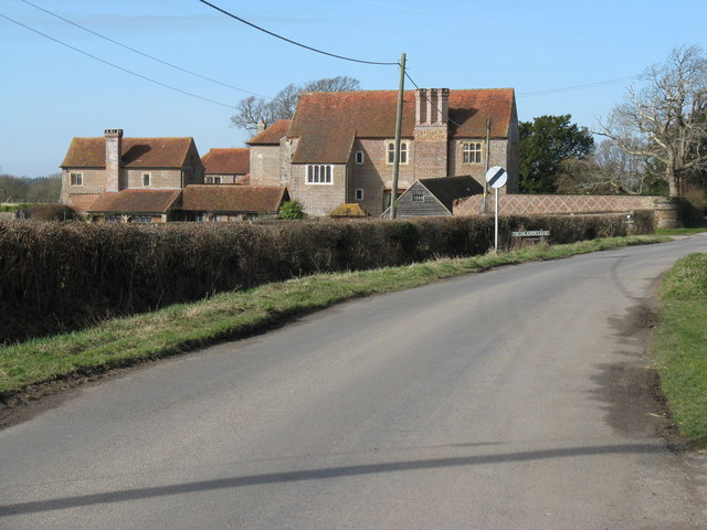 Chiddingly Place Marked on OS explorer maps as Place Farmhouse